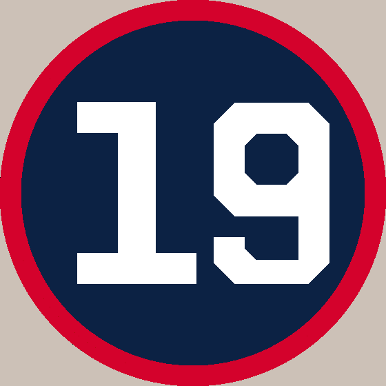 Player: Bob Feller. A recreation of how it looks at Progressive Field, in which the background is beige on a blue circle with white numbers and red circling.